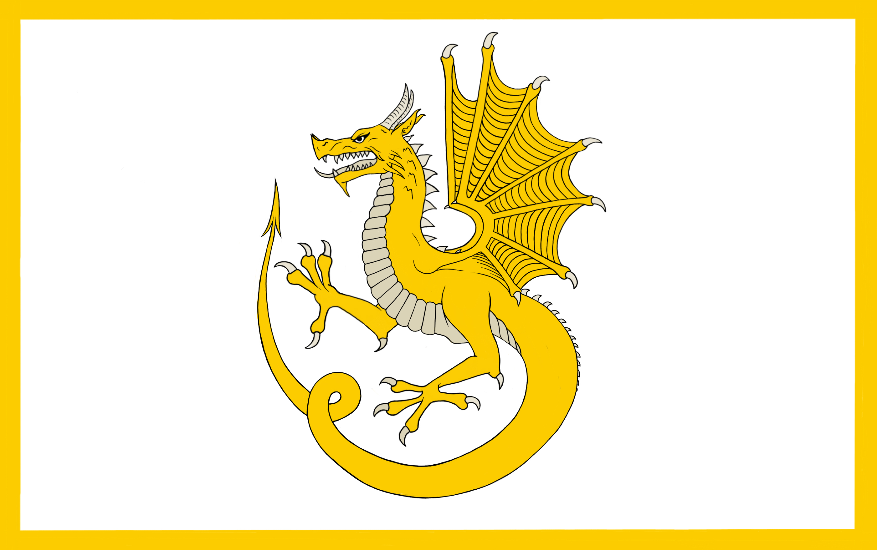 c.1400 – c.1416 Y Ddraig Aur, royal standard of Owain Glyndŵr, Prince of Wales, famously raised over Caernarfon during the Battle of Tuthill in 1401 against the English.